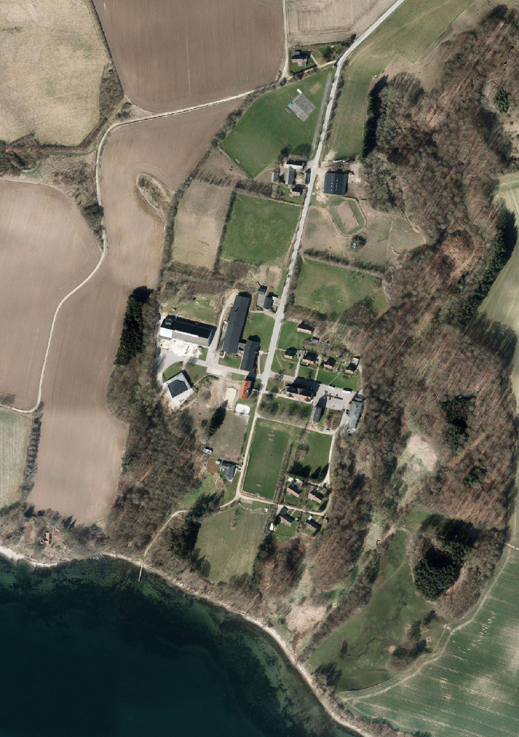 Aerial photo of Danish Junior College/Vejlefjordskolen.